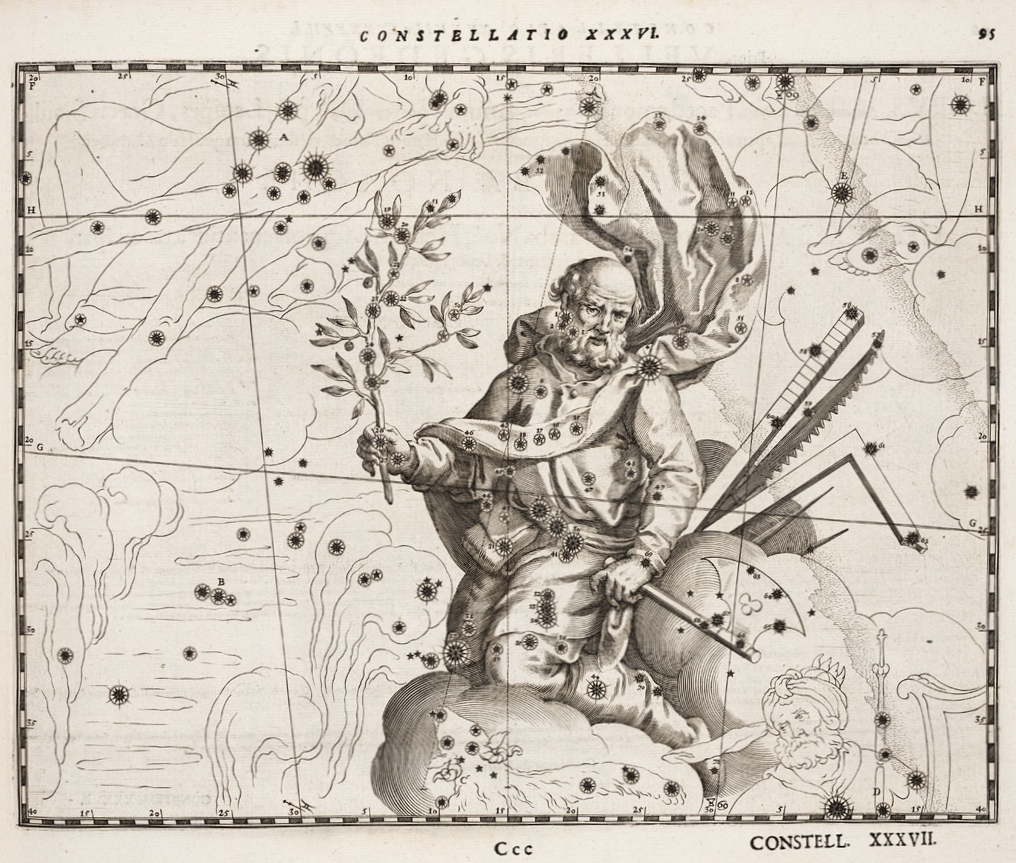 Image 34: Saint Joseph